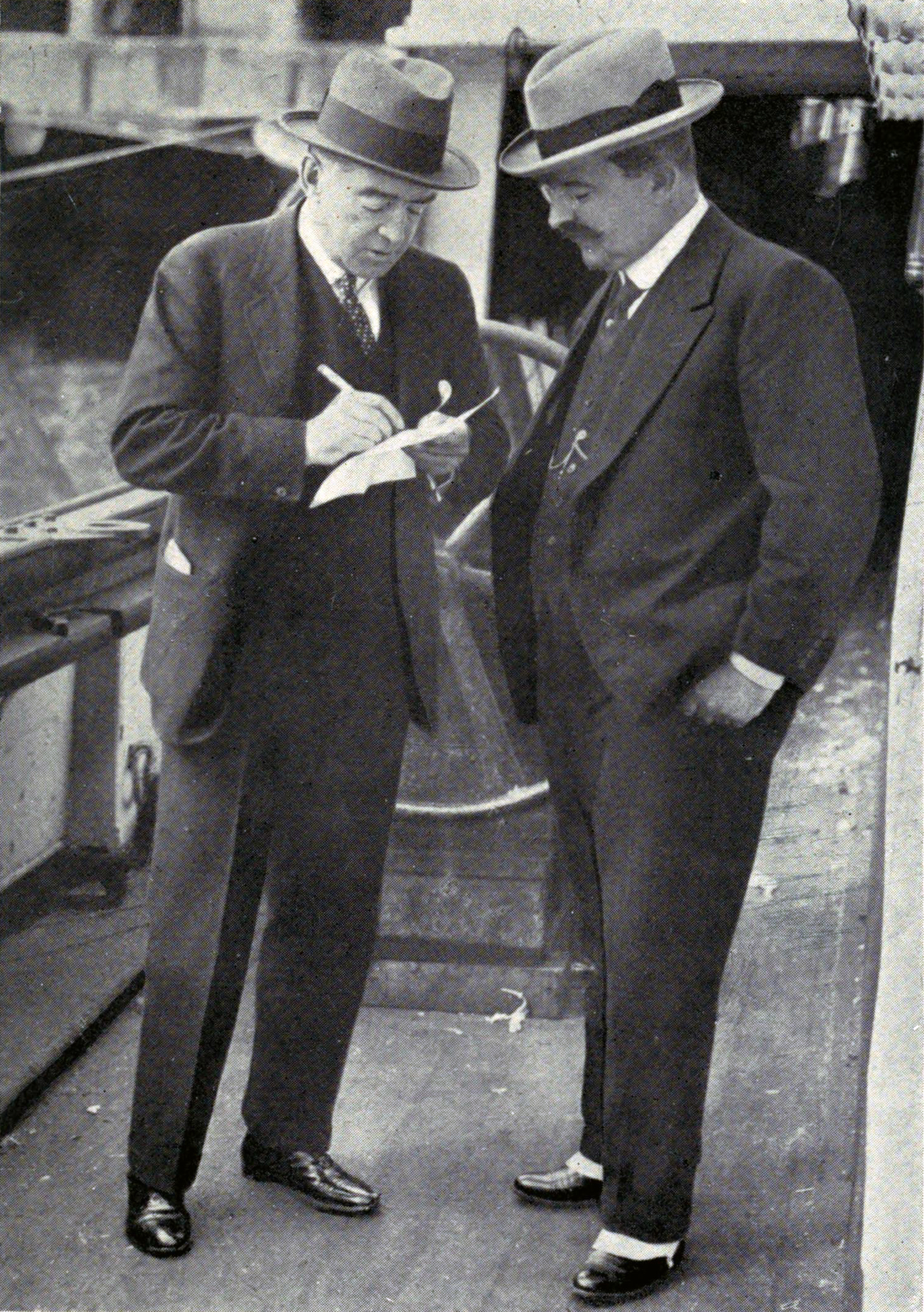 Sir Ernest Henry Shackleton (left) with his sponsor John Quiller Rowett (right)